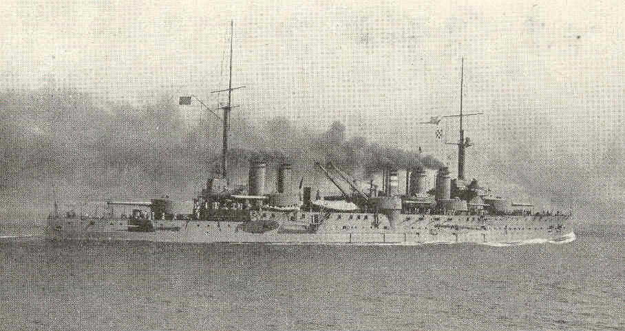 Subject: Diderot (Battleship), Battleships Tag: Vessels